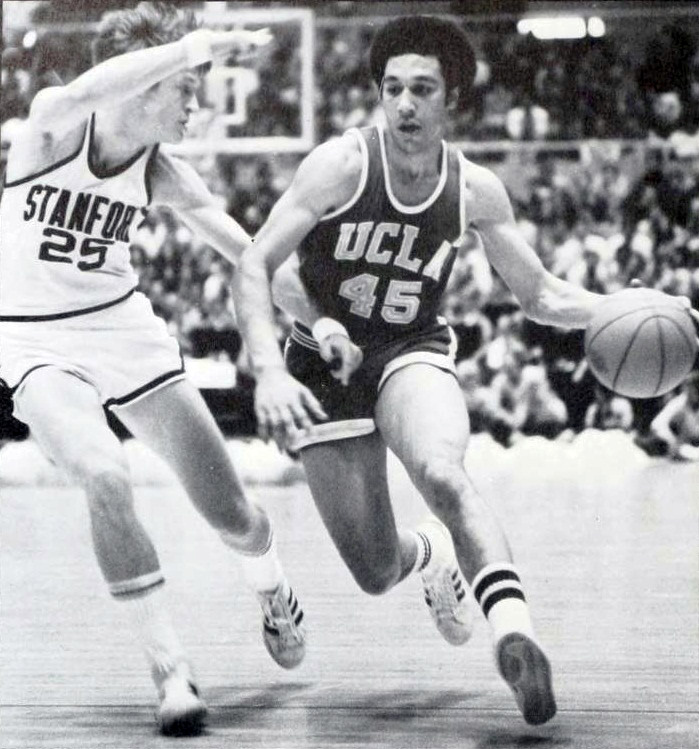 Photograph of UCLA basketball player Henry Bibby